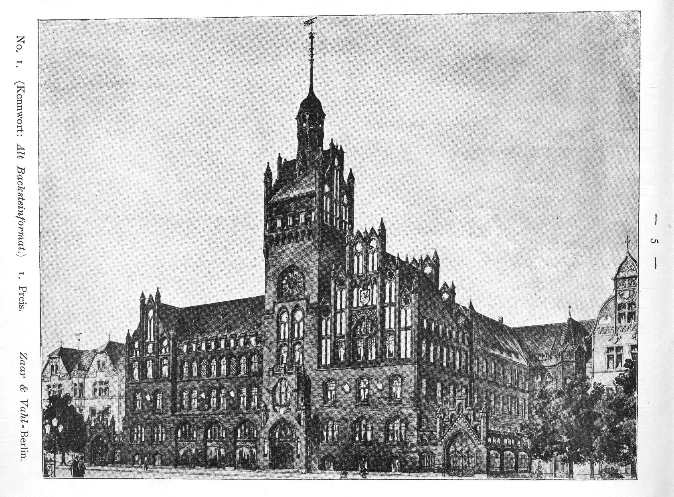 City Hall Projects in Slupsk